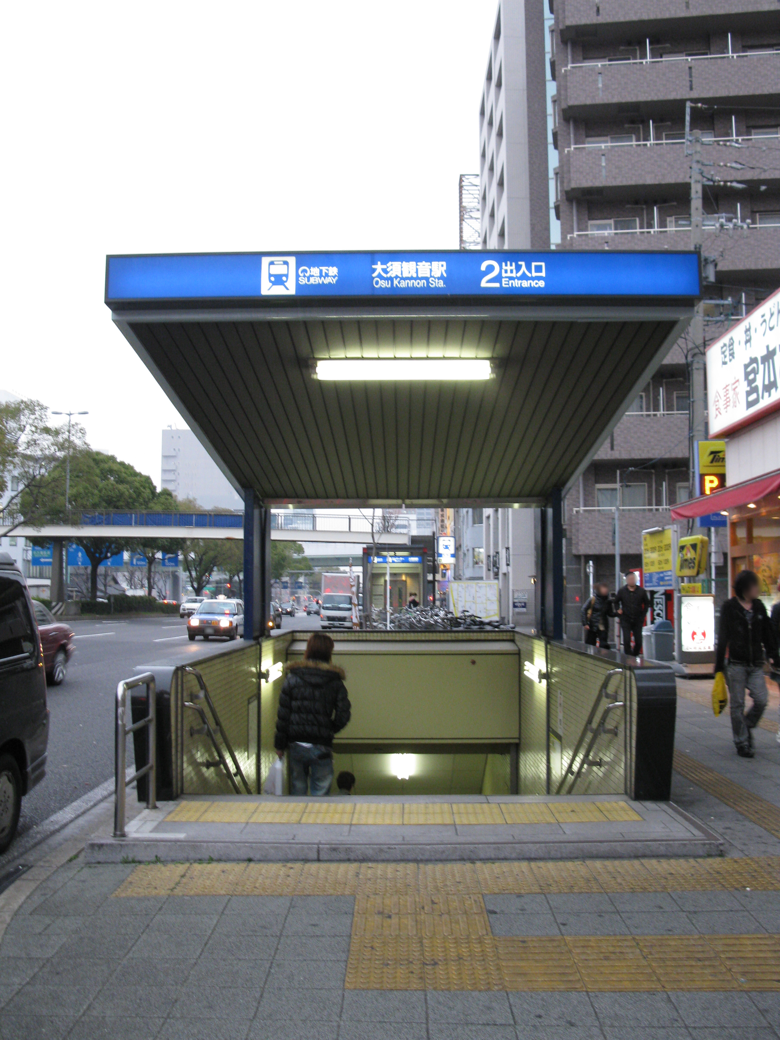 Ōsu Kannon Station no.2 entrance (Nagoya Municipal Subway Tsurumai Line)